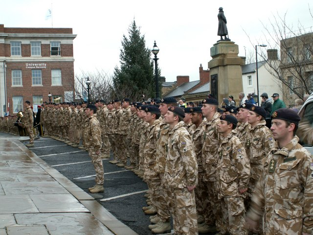 The Light Dragoons stand to attention At the entrance to Barnsley Town Hall where they are about to receive the freedom of the borough.